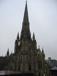 St Martin in the Bull Ring, Birmingham, England.